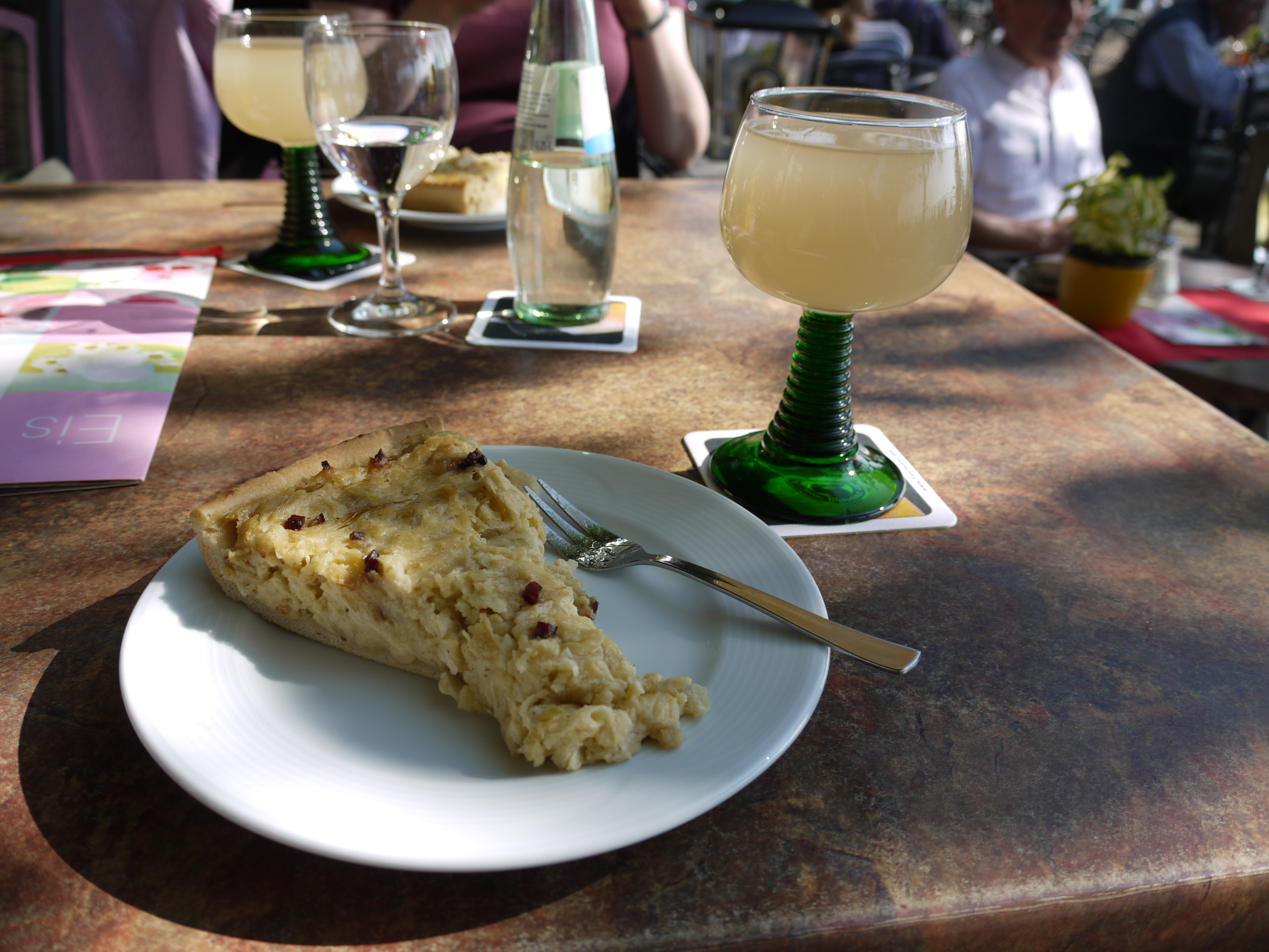 Onion pie and New Wine See where this picture was taken. [?]